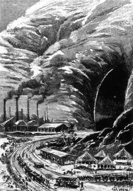 An illustration from Jules Verne's novel "The Purchase of the North Pole" drawn by George Roux.